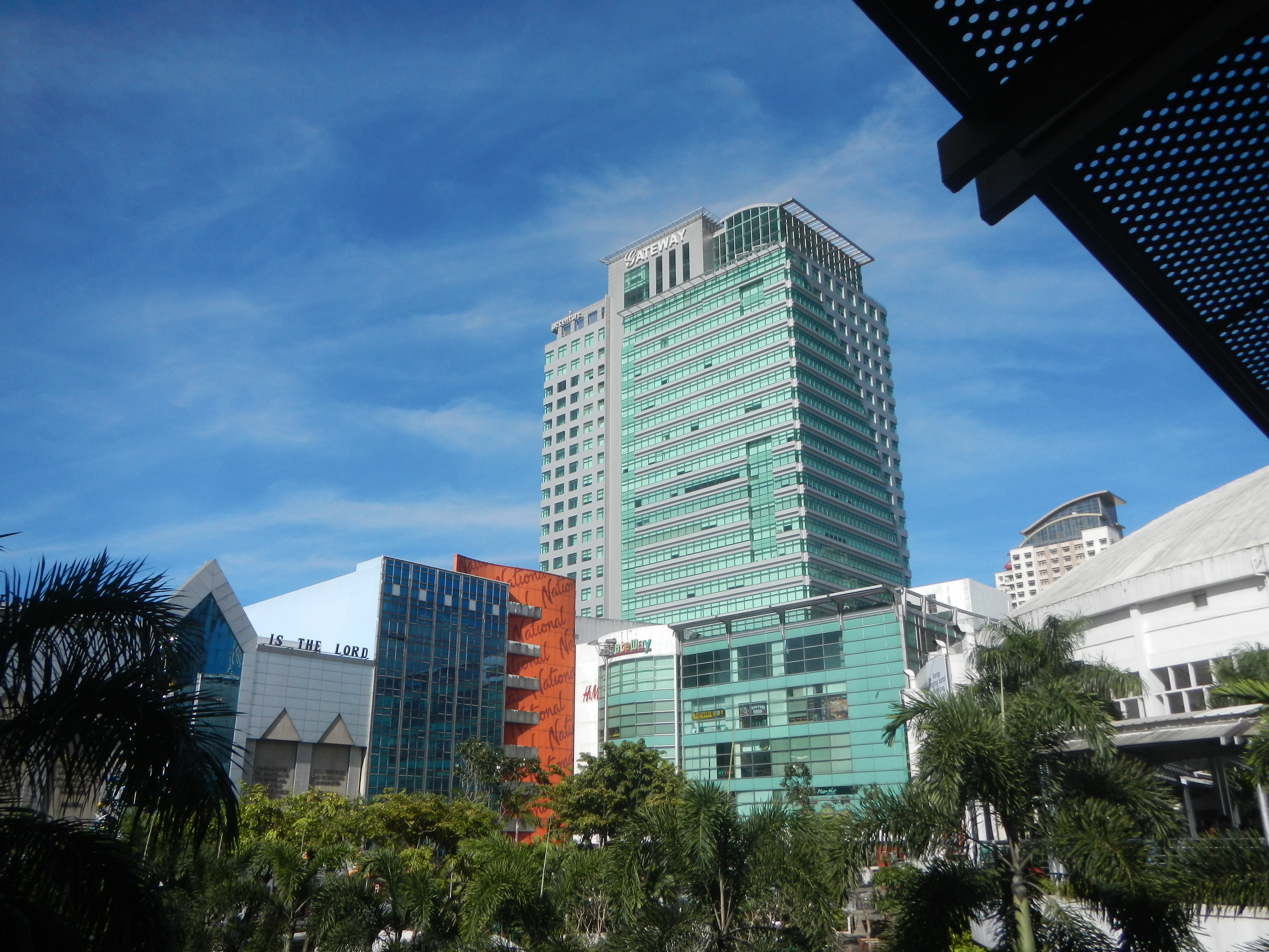 Gateway Mall (Araneta Center) Smart Araneta Coliseum EDSA (road) and Aurora Boulevard, Quezon City List of barangays of Metro Manila Legislative districts of Quezon City Districts IV, Barangays of Quezon City, Barangay Immaculate Conception (Betty Go-Belmonte), Cubao, District IV, beside Barangay Socorro, Quezon City, Quezon City (Note: Judge Florentino Floro, the owner, to repeat, Donor Florentino Floro of all these photos hereby donate gratuitously, freely and unconditionally all these photos to and for Wikimedia Commons, exclusively, for public use of the public domain, and again without any condition whatsoever).